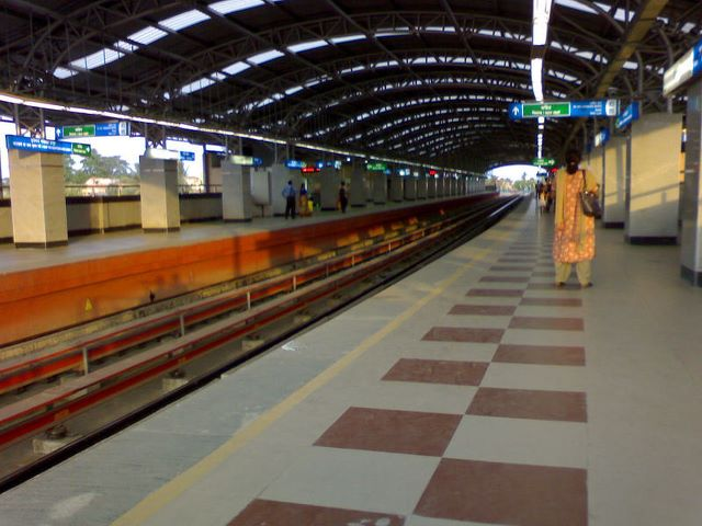 Park Street Metro Station entrance gate wall